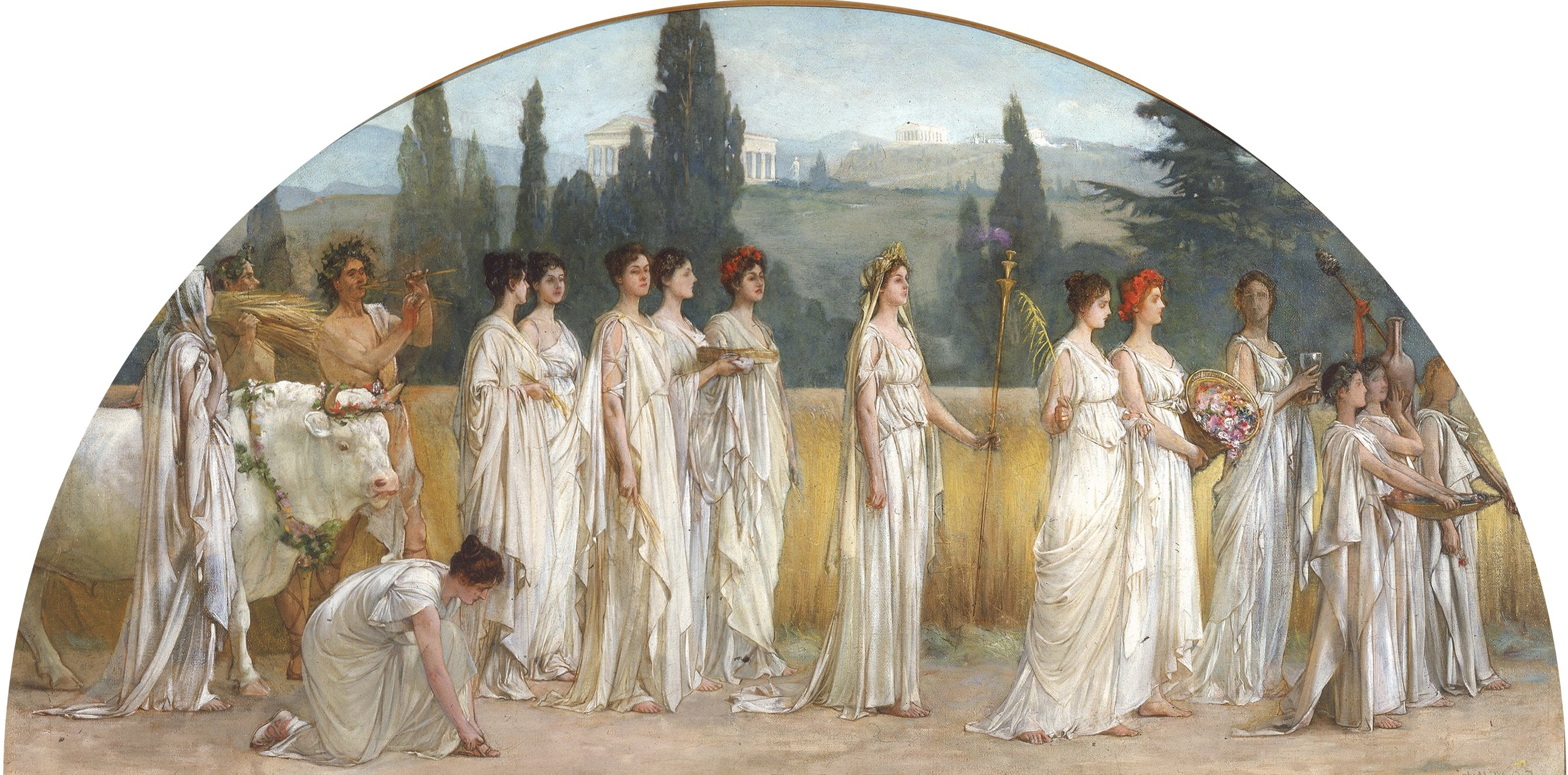 Thesmophoria by Francis Davis Millet, 1894-1897, oil on canvas, 35.5 x 61.5 inches, Brigham Young University Museum of Art